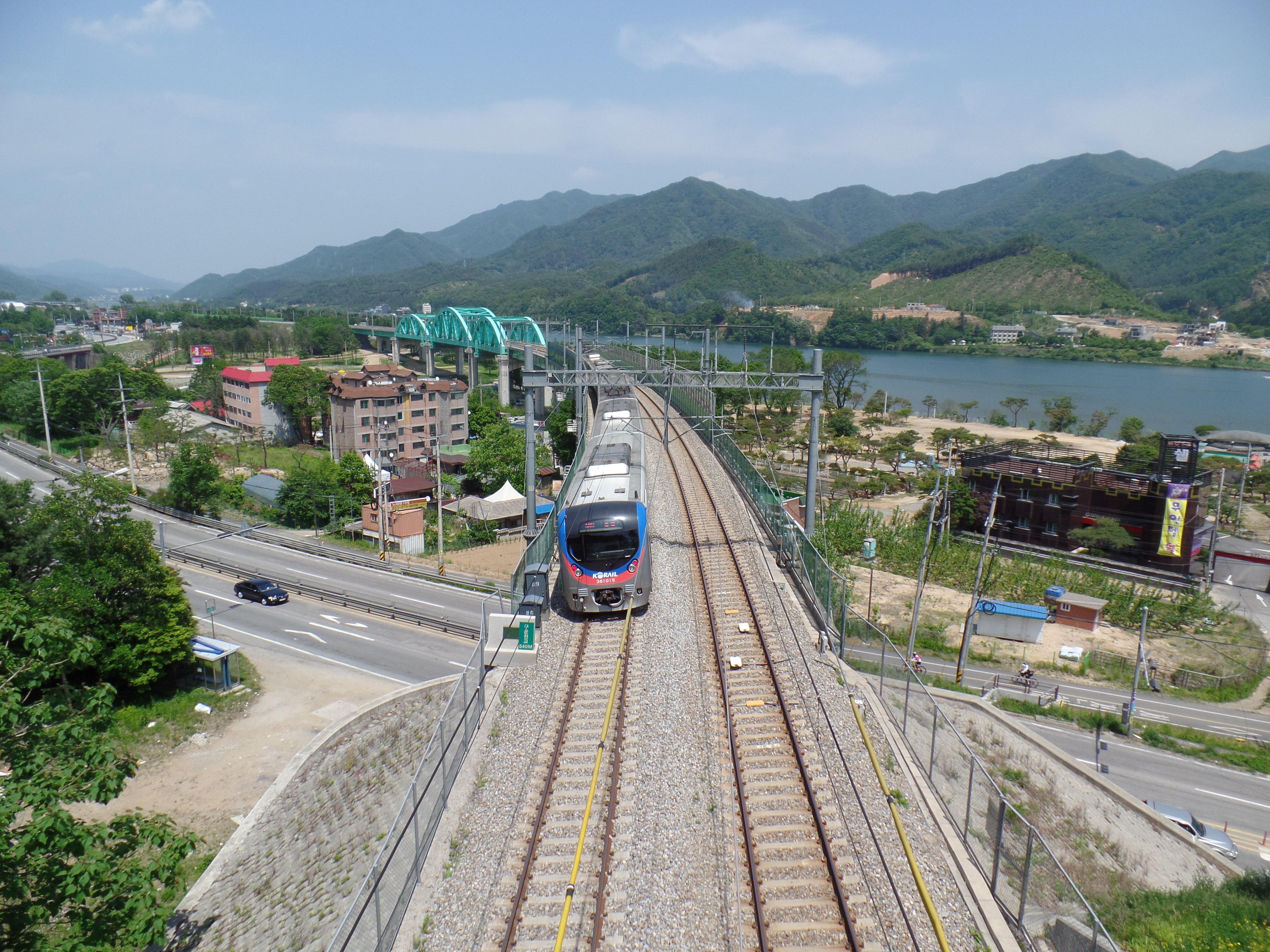 Gyeongchun Line Guuncheon Bridge with Korail Electric Multiple Unit 361015 Bound the Hoegi